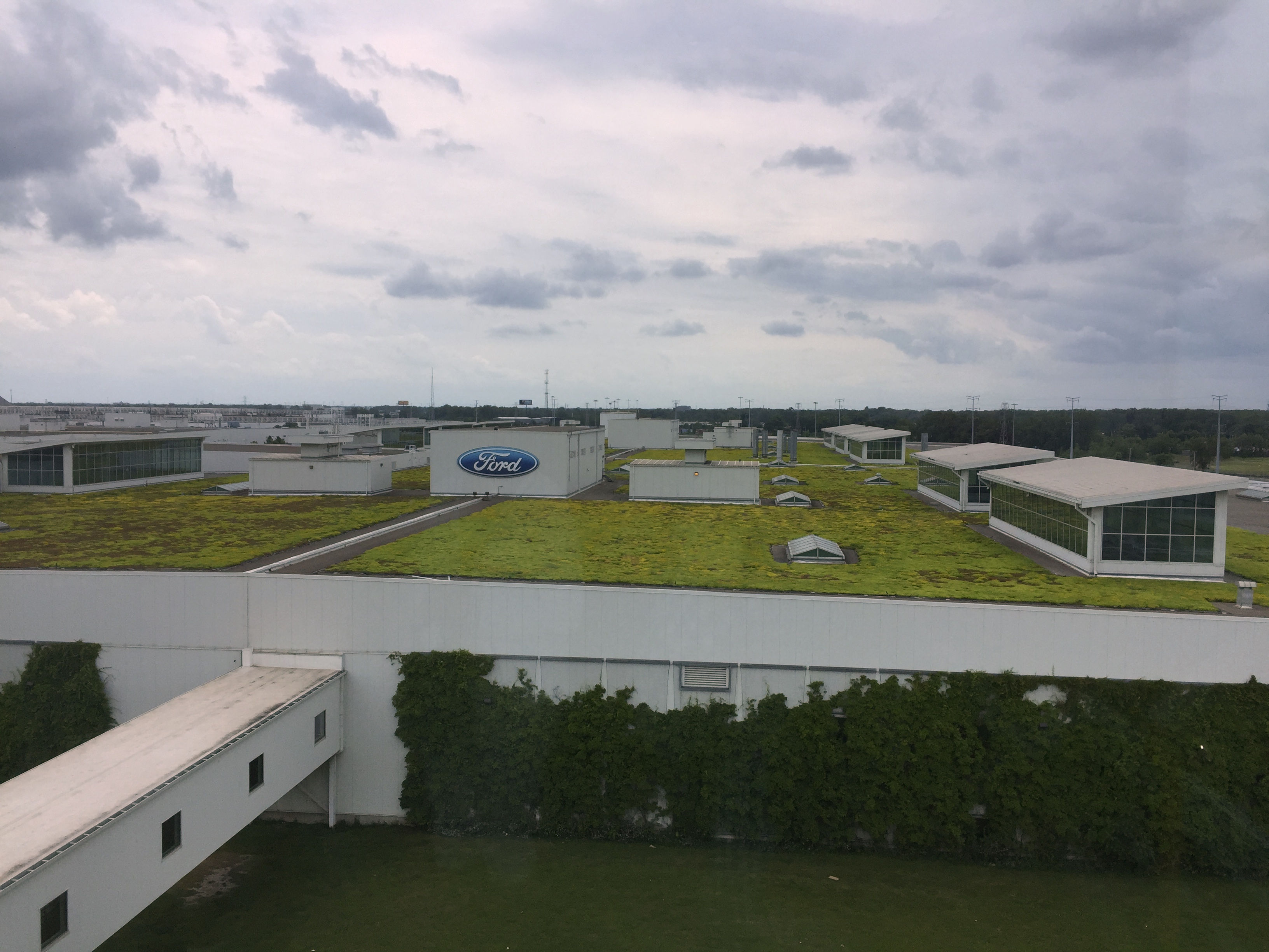 Green roof at Ford River Rouge Complex in 2019